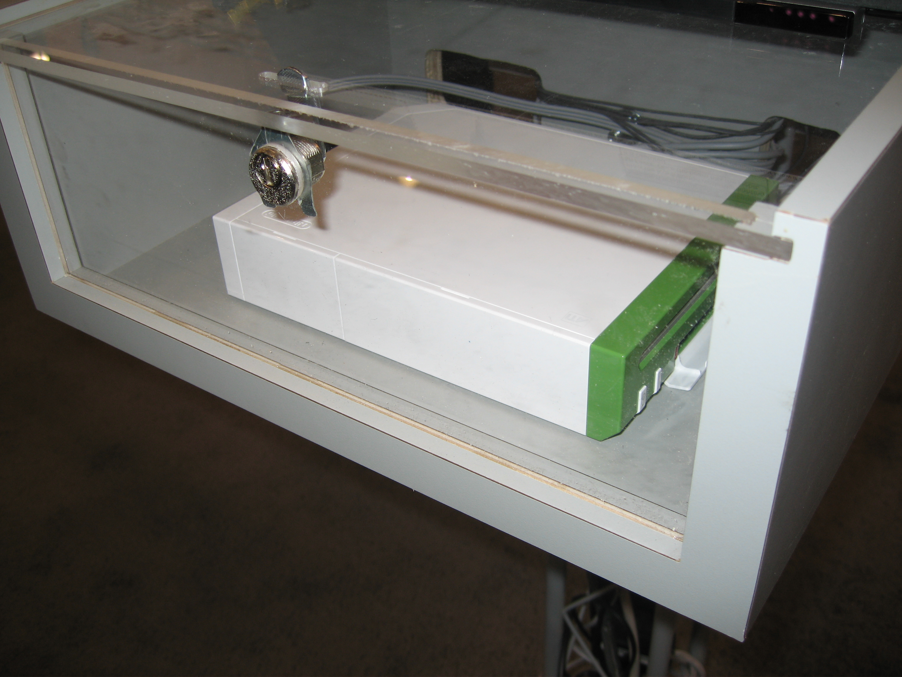 Wii software development kit at DigitalLife 2006